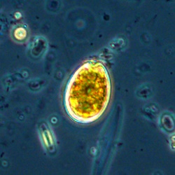 field sample of Prorocentrum lima